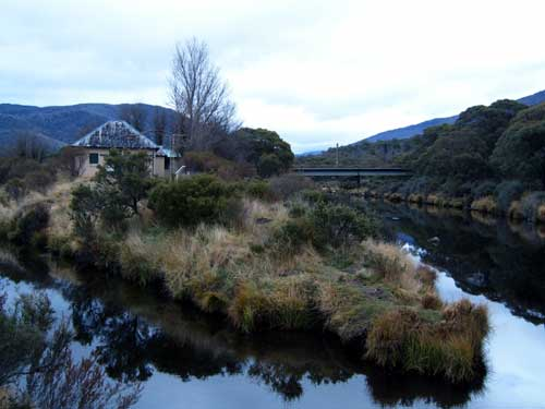 Bullocks Flat homestead (left) and Ski Tube bridge over the Thredbo River, New South Wales, Australia.